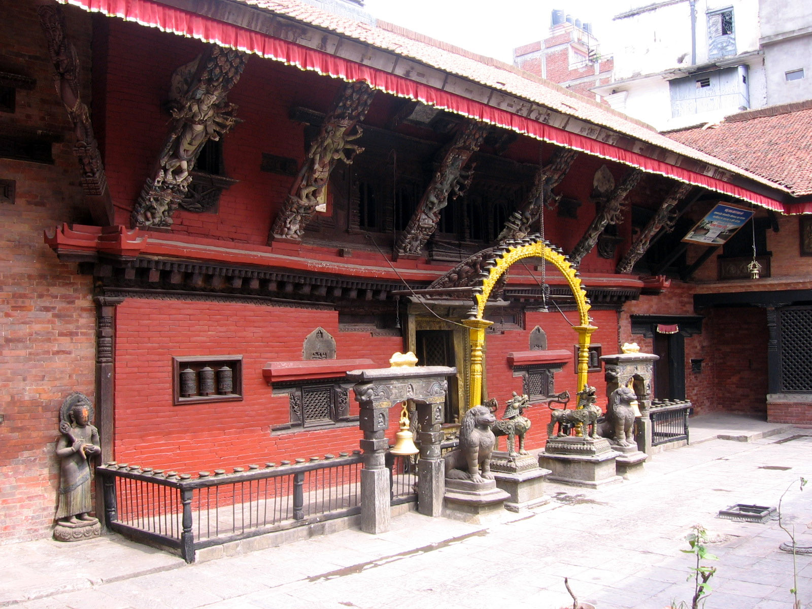 Sacred courtyard of Itum Baha in Kathmandu.